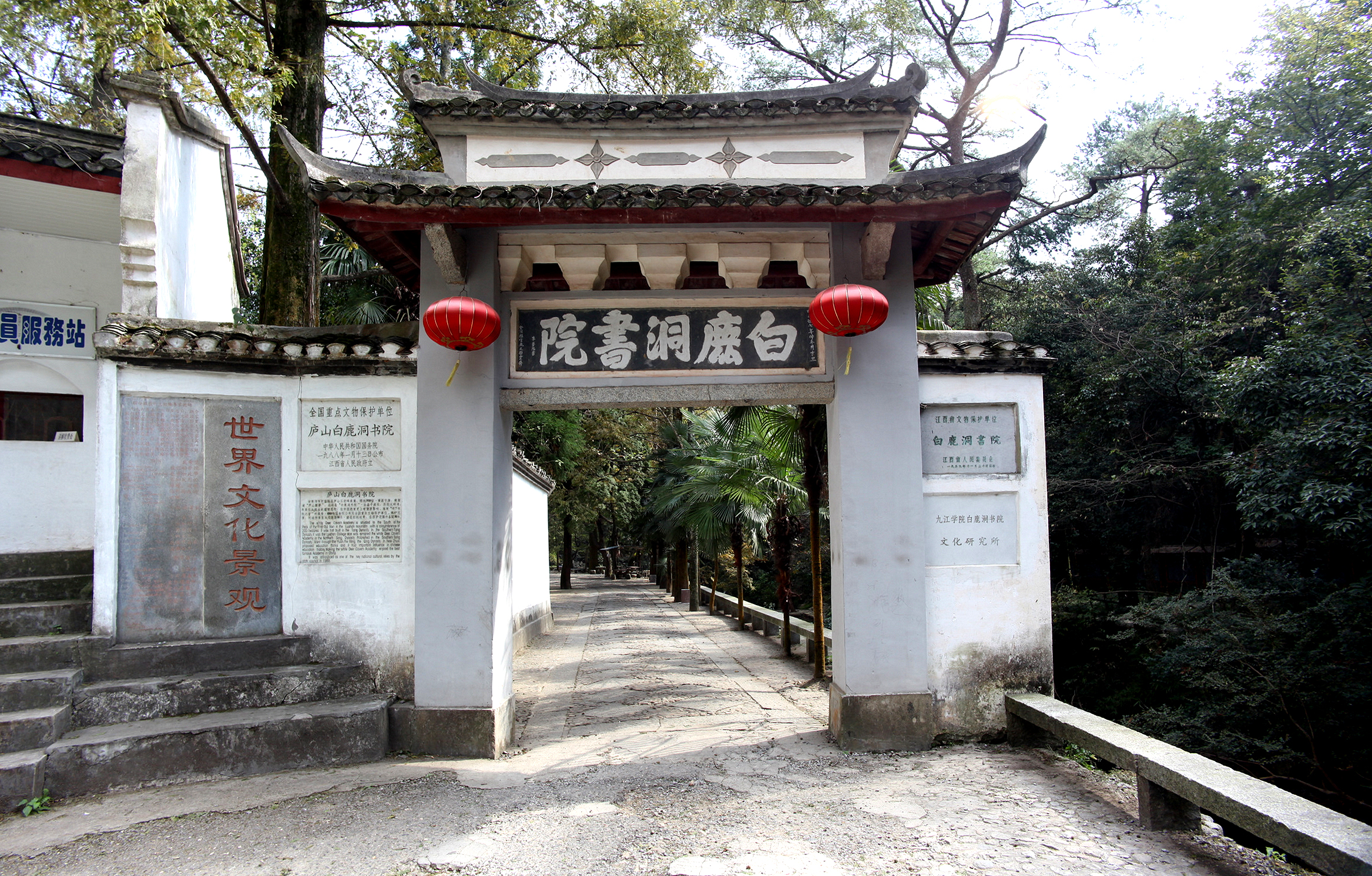 Lushan White Deer Grotto Academy 庐山白鹿洞书院